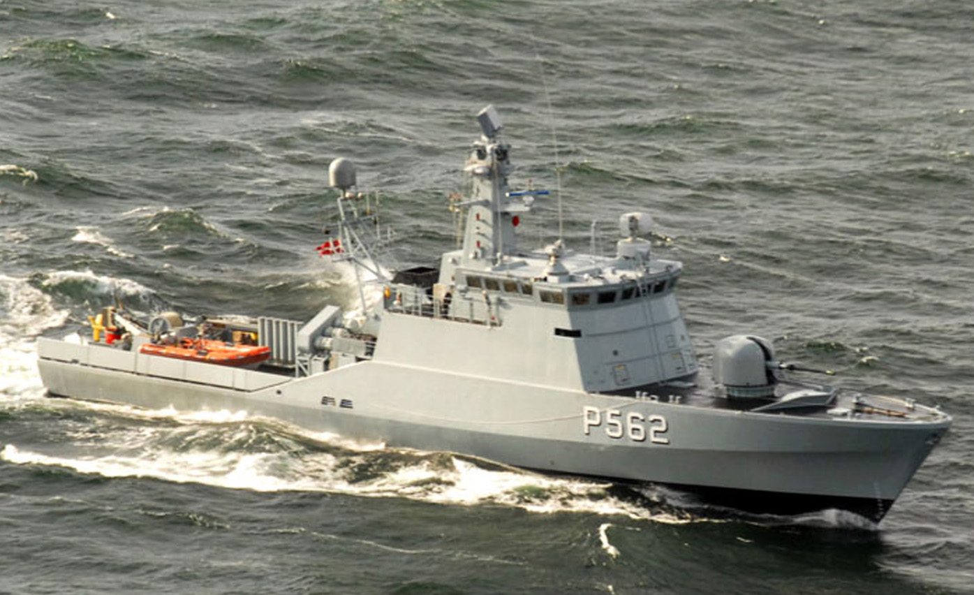 The Danish guided-missile patrol craft HDMS Viben (P562) steams through the Baltic Sea during exercises supporting Baltic Operations (BALTOPS). BALTOPS is an annual international exercise involving 13 countries.